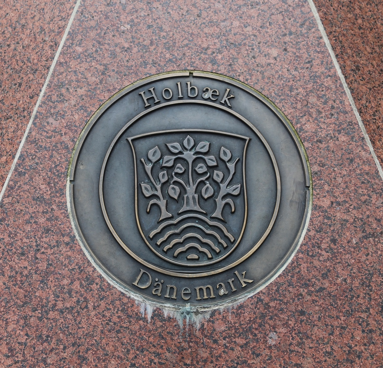 Holbæk is one of the twinned towns / sister cities of Celle in the North of Germany. Placed at a work of art with the further seals of her twinned towns. Inserted in polished granite of a multilateral similar to pyramid polygon (see survey photography)